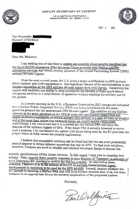 Letter from Paul Wolfowitz to EU ministers, calling for abandonment of the Galileo GNSS